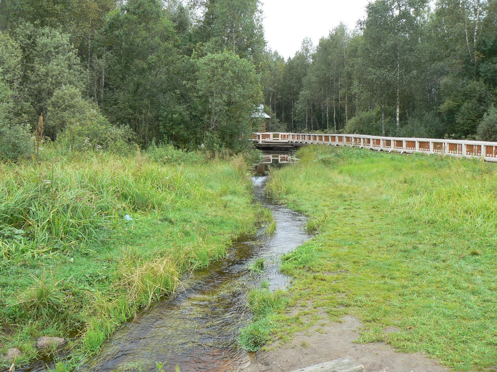 Source of the VolgaHrvatski: Izvor Volge